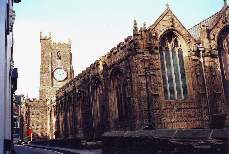 St. Mary Magdalen, Launceston, Cornwall